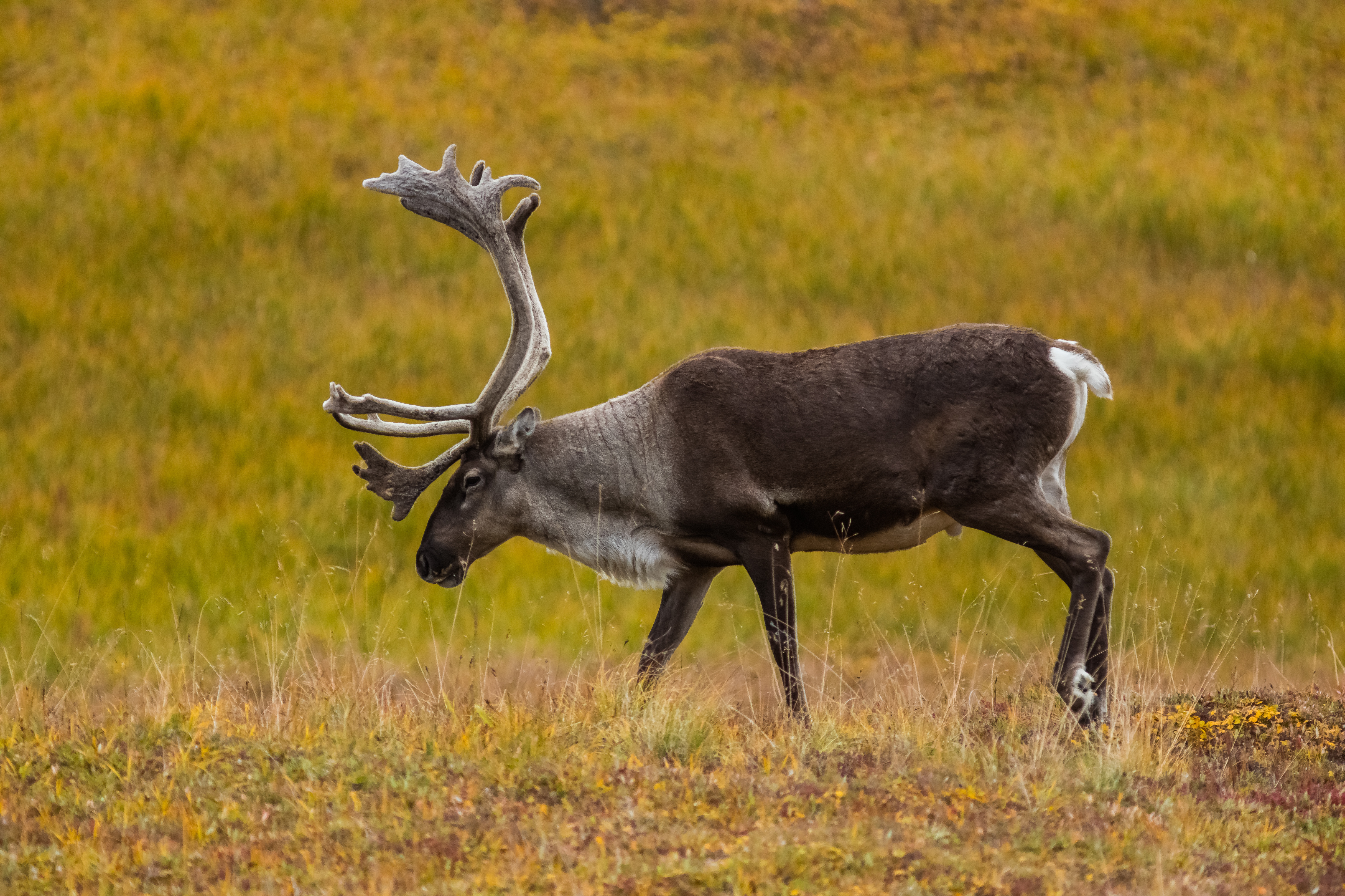 Reindeer (Rangifer tarandus), Denali National Park, Alaska, United States